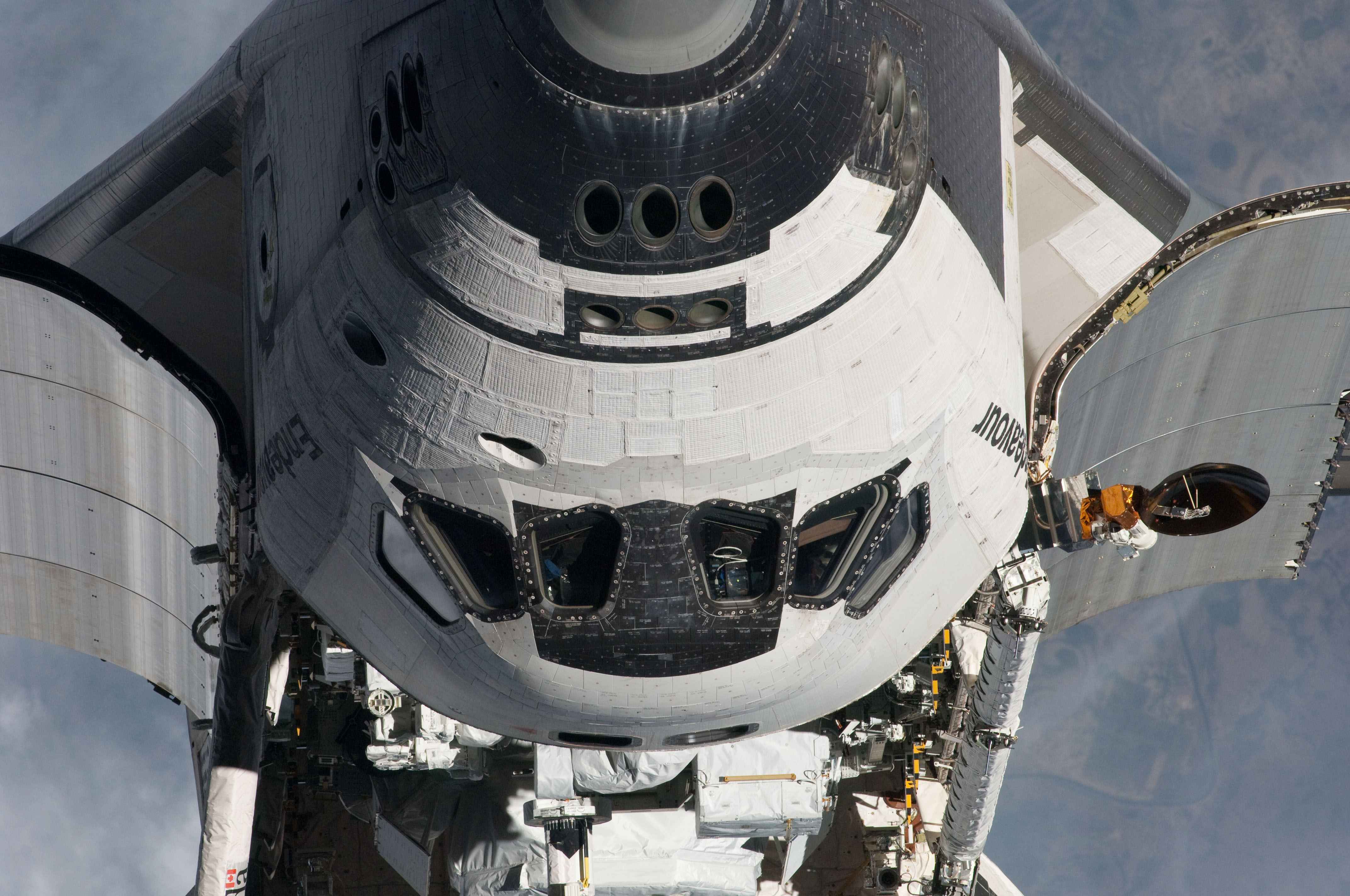 Endeavour begins the nine-minute Rendezvous Pitch Maneuver, or 'backflip,' on its last visit to the International Space Station. This view of the nose, crew cabin and forward payload bay of the space shuttle Endeavour was provided by an Expedition 27 crew member during a survey of the approaching STS-134 vehicle prior to docking with the International Space Station. As part of the survey and part of every mission's activities, Endeavour performed a back-flip for the rendezvous pitch maneuver (RPM). The image was photographed with a digital still camera, using a 400mm lens at a distance of about 600 feet (180 meters).